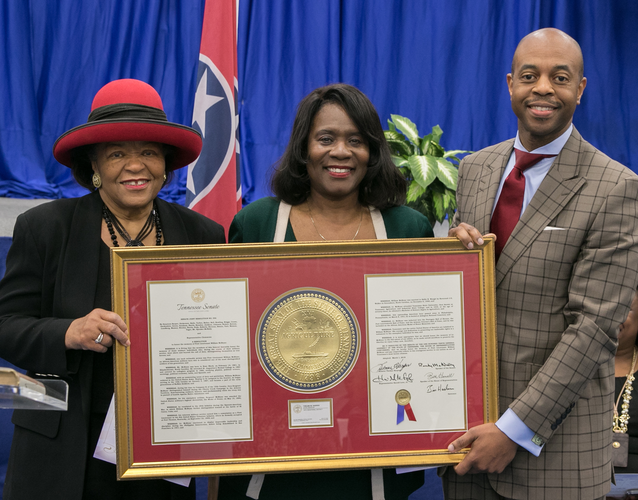 Tennessee Senator Harper, TSU President Dr Glover, and Representative Love